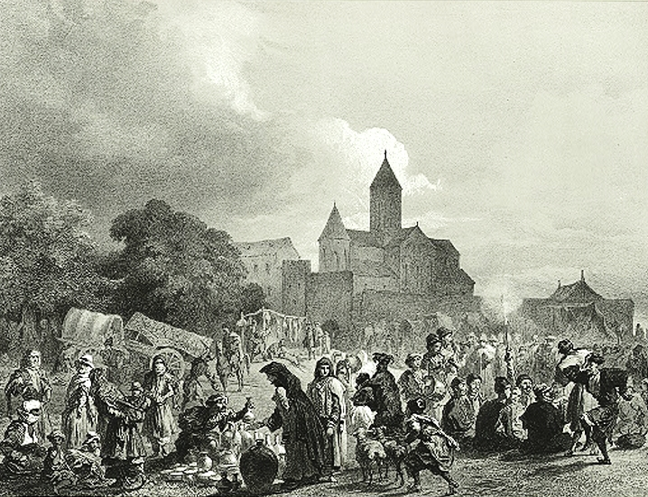 The Alaverdoba festival in Georgia